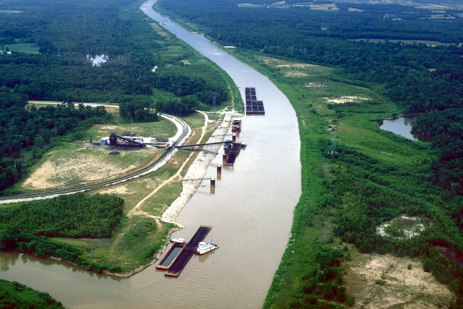 A coal loading station on the Kaskaskia River near New Athens, Illinois, USA. The U.S. Army Corps of Engineers maintains locks and a channel for navigation on the river. This facility is located at the end of Pike Sawmill Road on the east side of the river below New Athens.